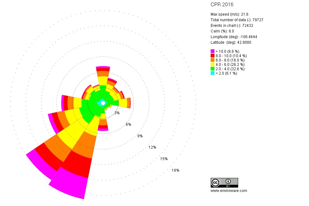 Wind rose showing distribution of wind speed and direction for Casper–Natrona County International Airport for the year 2016.